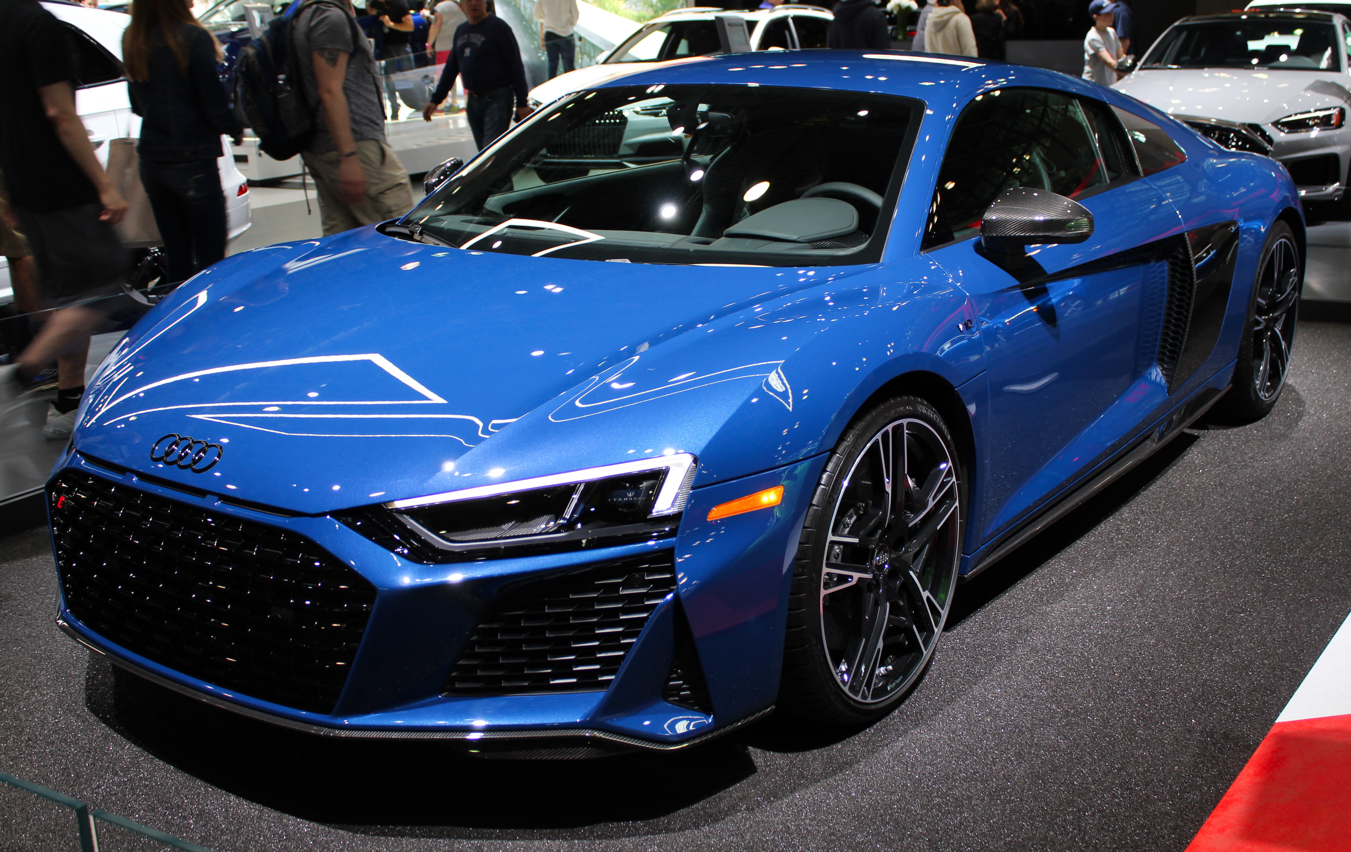 A 2019 Audi R8 V10 performance quattro photographed during the 2019 New York International Auto Show, in Hudson Yards, Manhattan, NYC